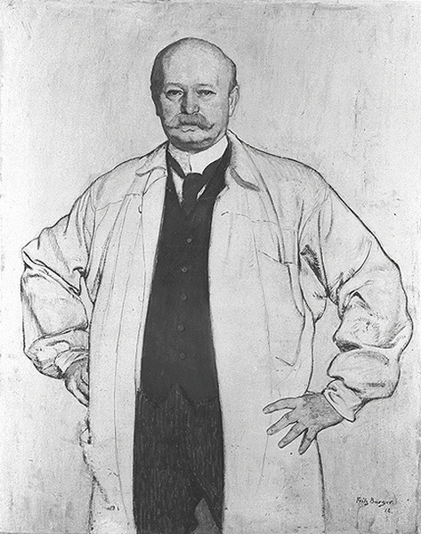 Portrait of sculptor Ludwig Manzel, by Fritz Burger (1912)